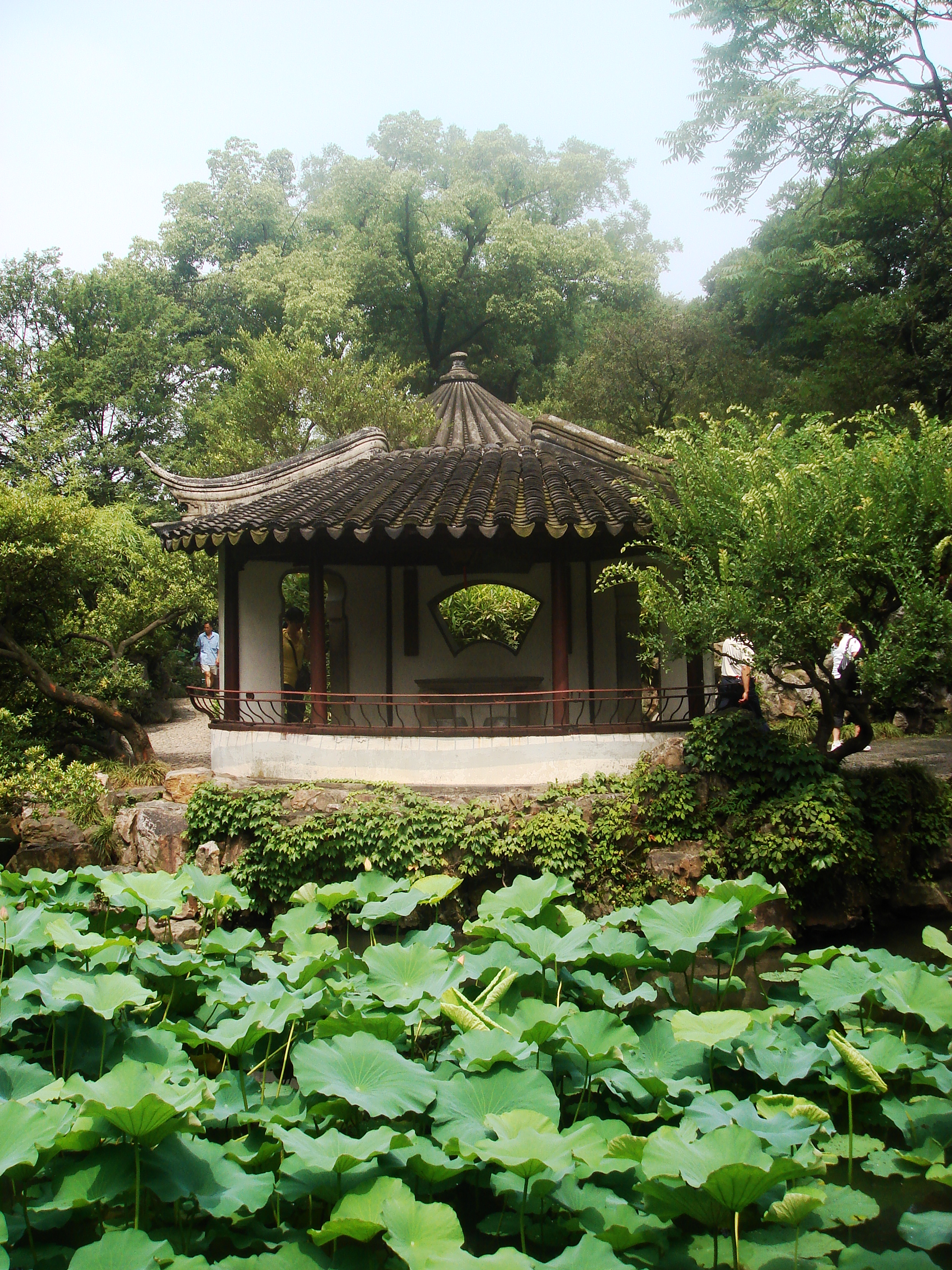 Two Chinese pavilions, named Shan ("Fan") and Lì ("Bamboo-covered", immediately behind) in the Humble Administrator's Garden, Suzhou. From this angle, they appear to be a single structure. 中文（中国大陆）: 中国苏州拙政园内的扇亭（前）和笠亭（后），看起来融为一体。